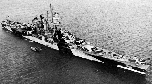 The U.S. Navy large cruiser USS Alaska (CB-1) at anchor, shortly after commissioning. She is painted in Camouflage Measure 32, Design 1D.